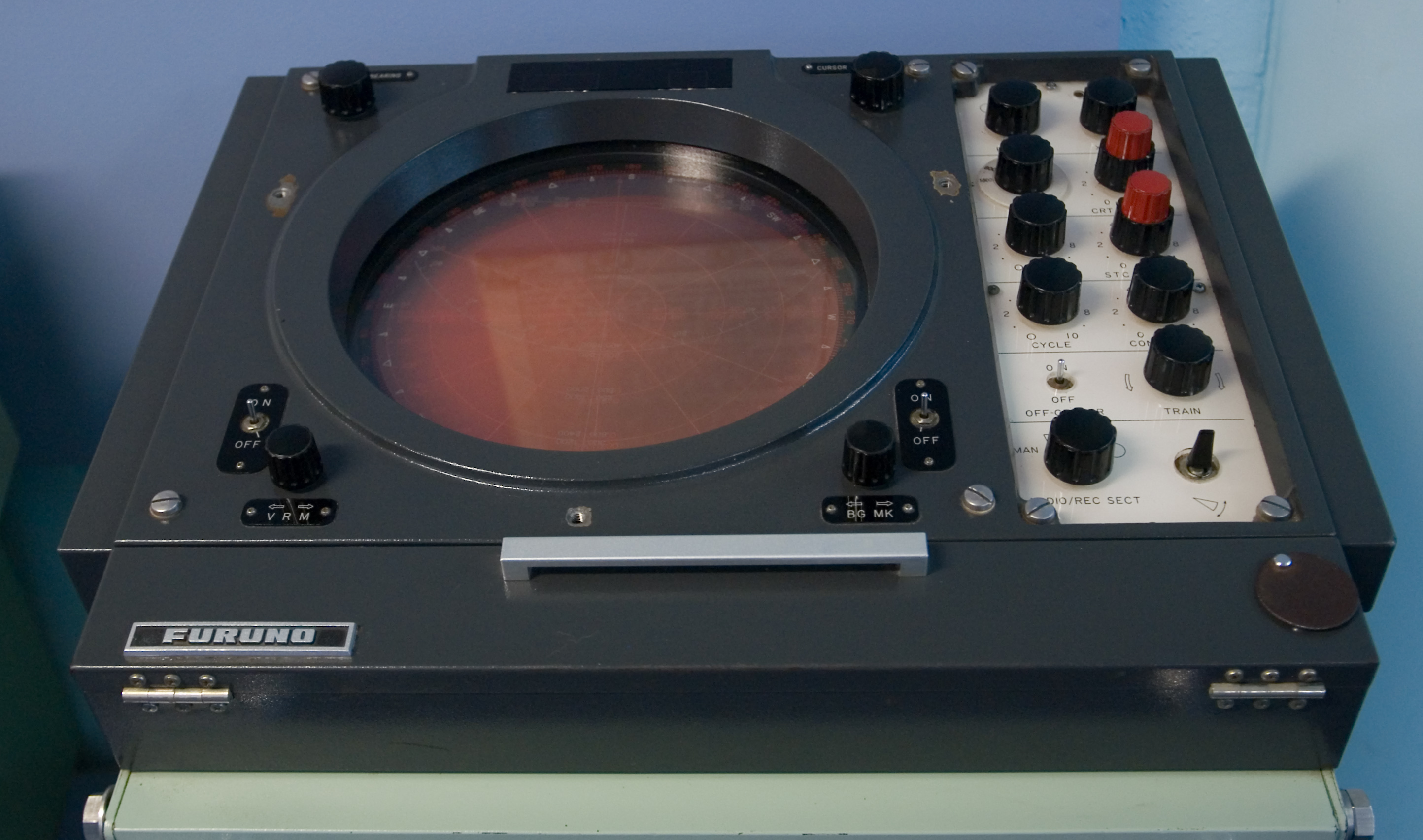 Sonar. Eden Maritime Museum.